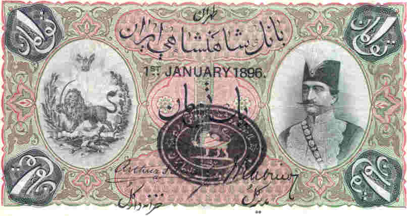 Image is from currency from the 1800s of Iran.